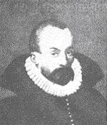 Albert Frederick (b. 1553; d. 1618), Duke of Prussia after 1568, a vassal of the Polish-Lithuanian Commonwealth. When he died without a male heir, Prussia came to the Electorate of Brandenburg.